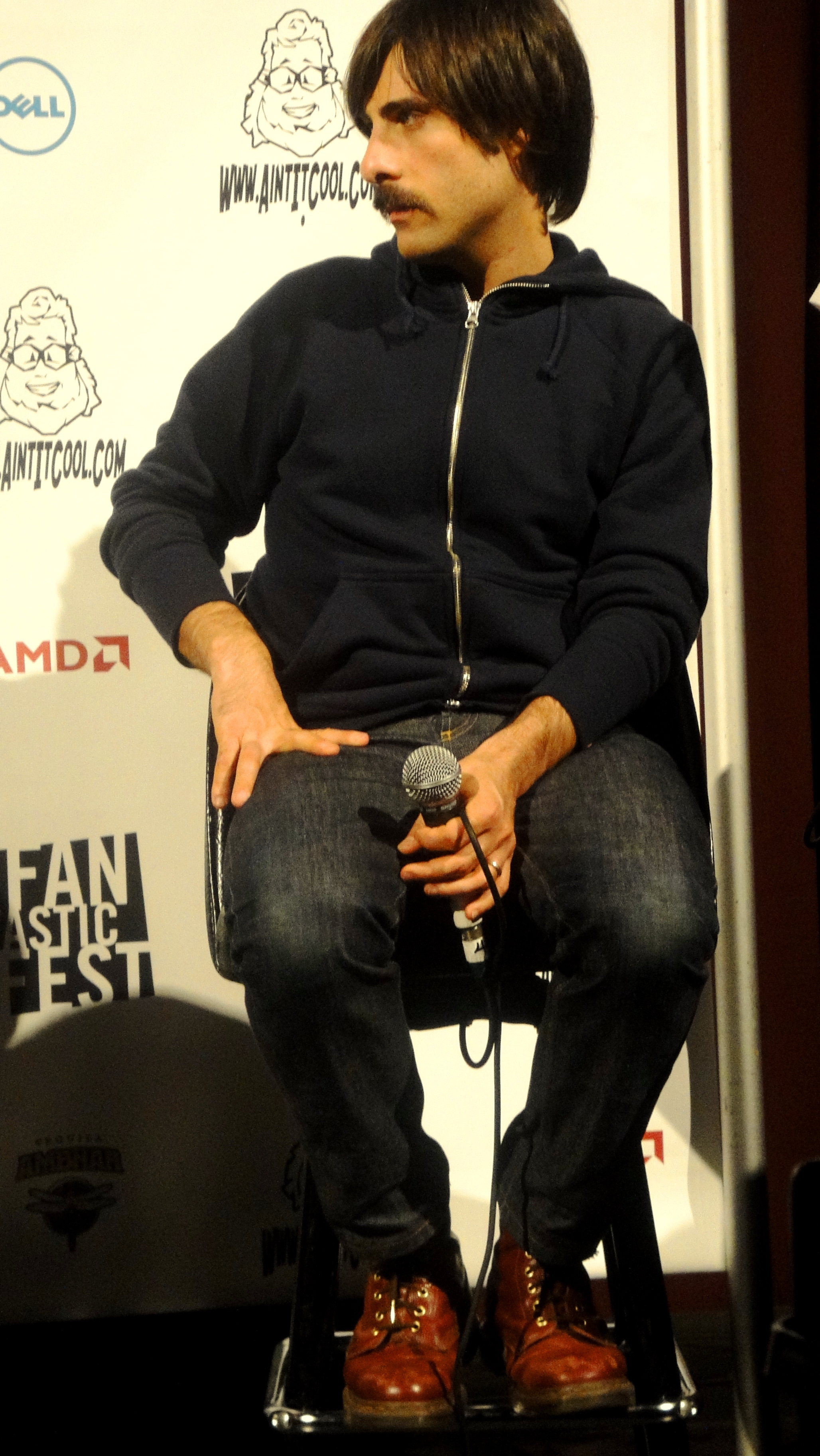 Jason Schwartzman at Alamo Drafthouse